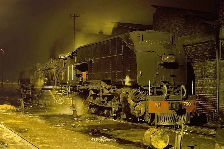 No 750 a member of the heavy NRZ class 20A Garratt at Bulawayo Loco Depot.